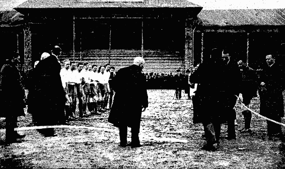 Opening of Wisła Kraków stadium in 1922.